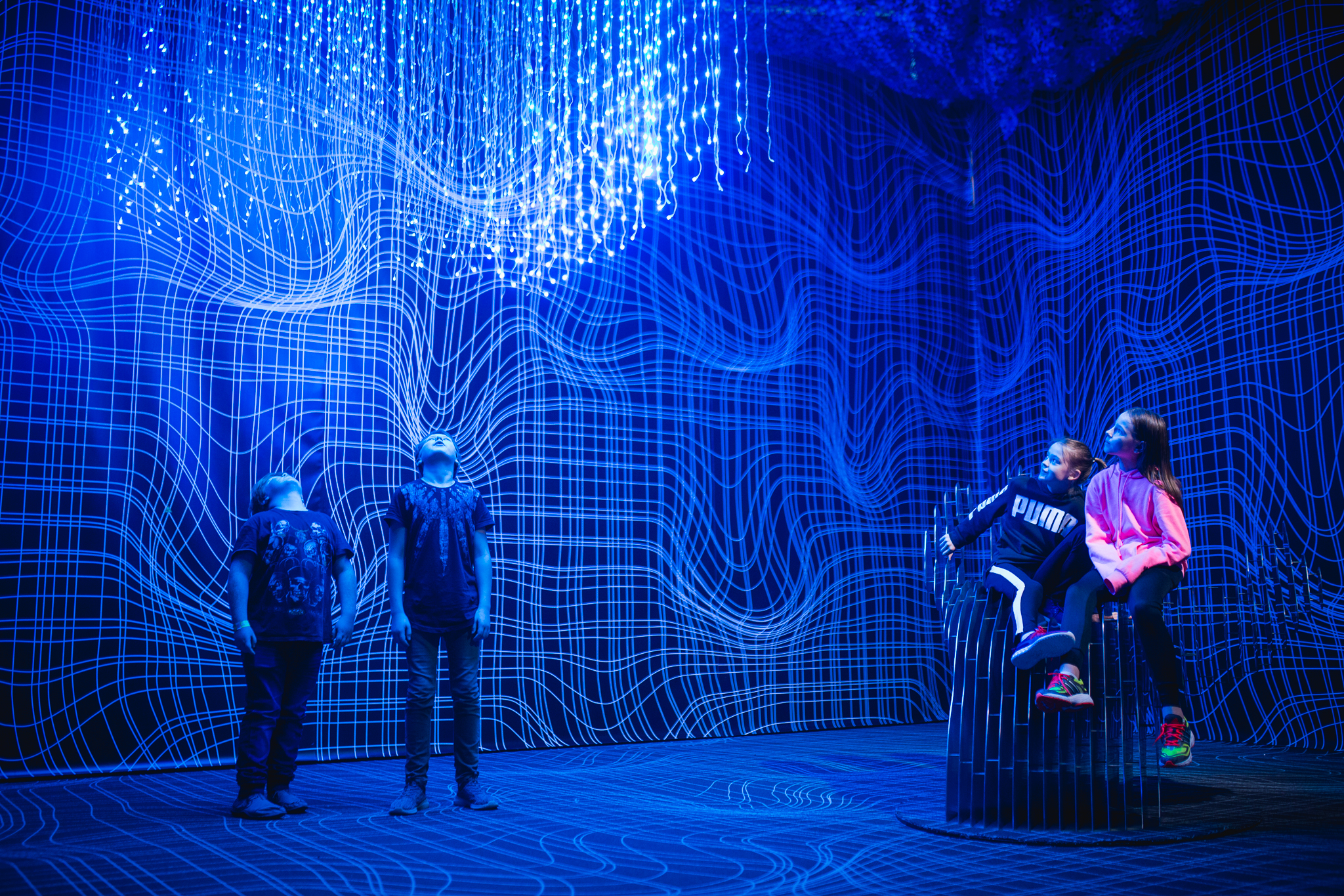 Exposition of illusions in AHHAA science centre. These youngsters spent the previous day and night in a science camp at the same centre, yet were still very curious to explore all the interesting features. Seems like curiosity never ceases! Picture take for Finnish Teacher's magazine.